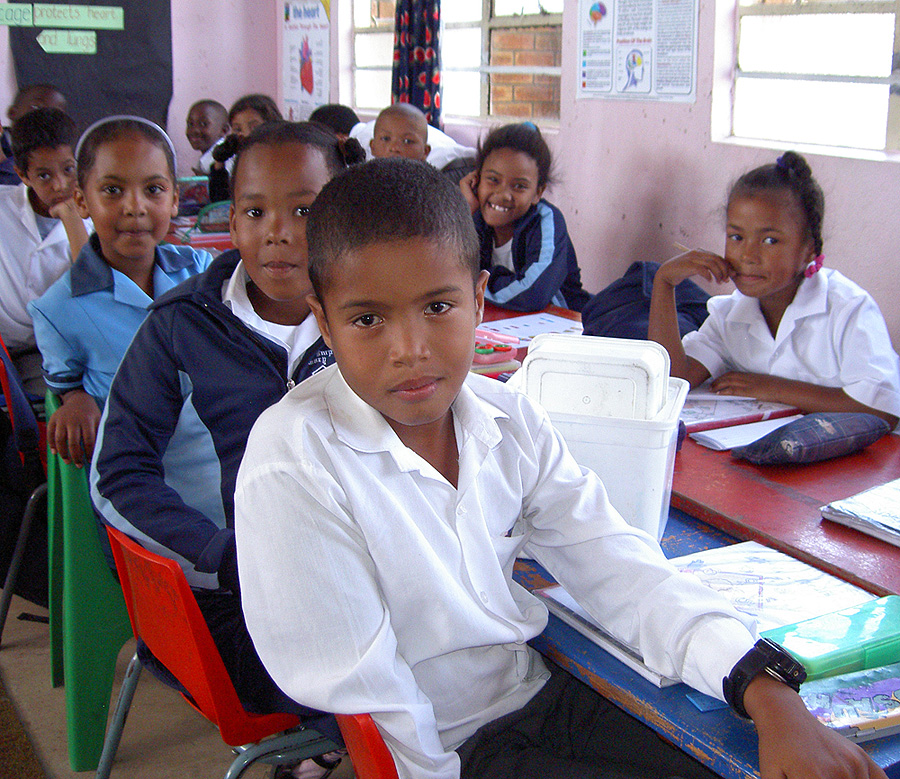 Cape coloured school children at Imperial Primary School in Eastridge, Mitchell's Plain (Cape Town, South Africa).